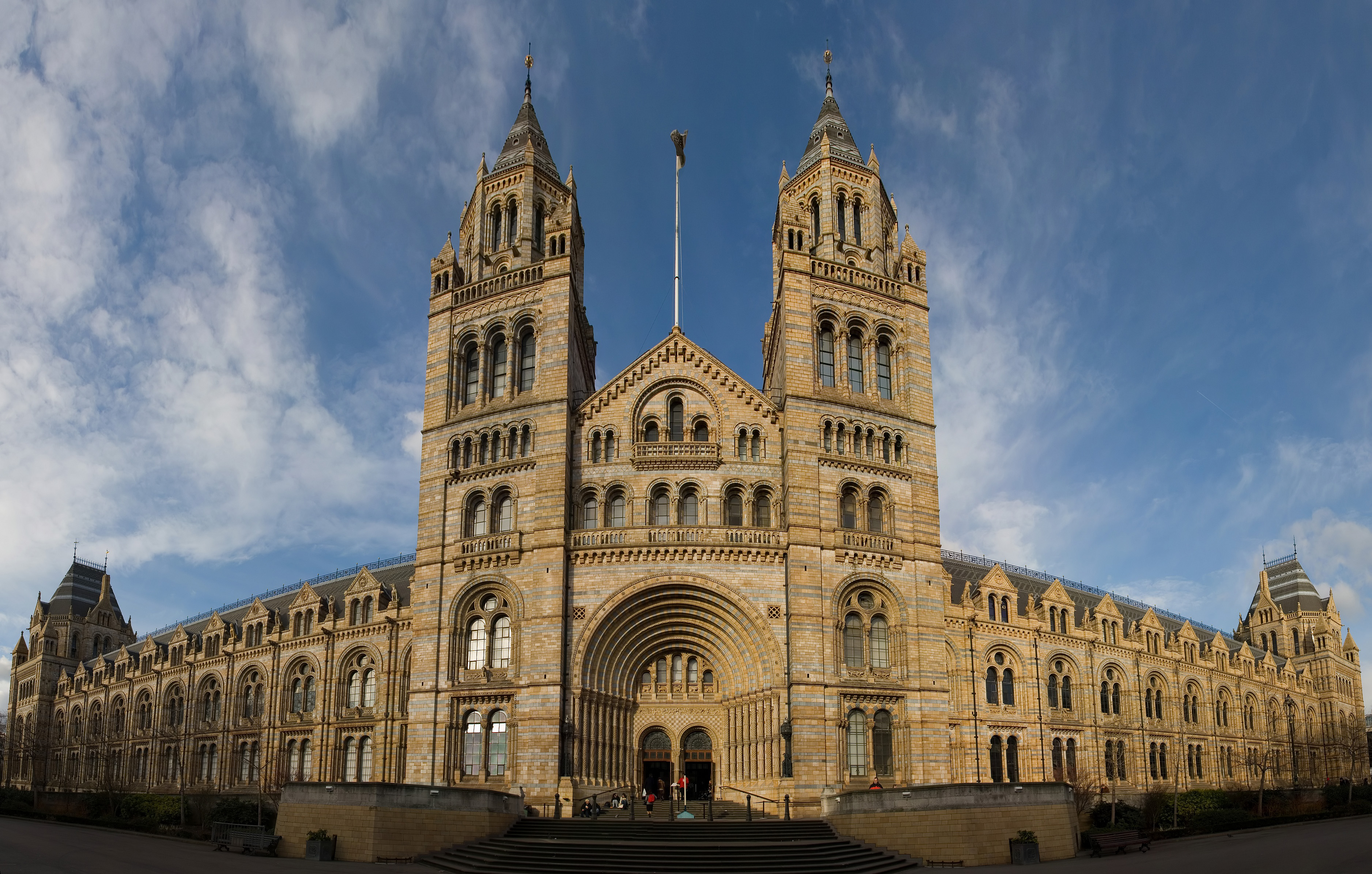 The Natural History Museum. This is a panorama of approximately 5 segments. Taken with a Canon 5D and 17-40mm f/4L.